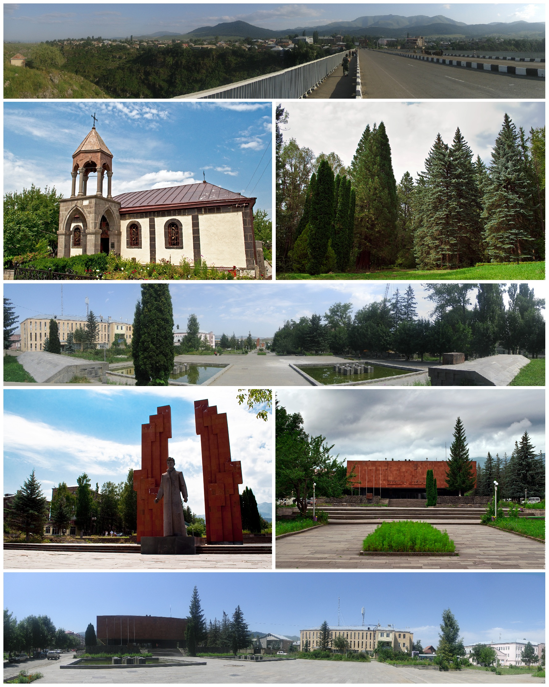 Landmarks of Stepanavan, Armenia.